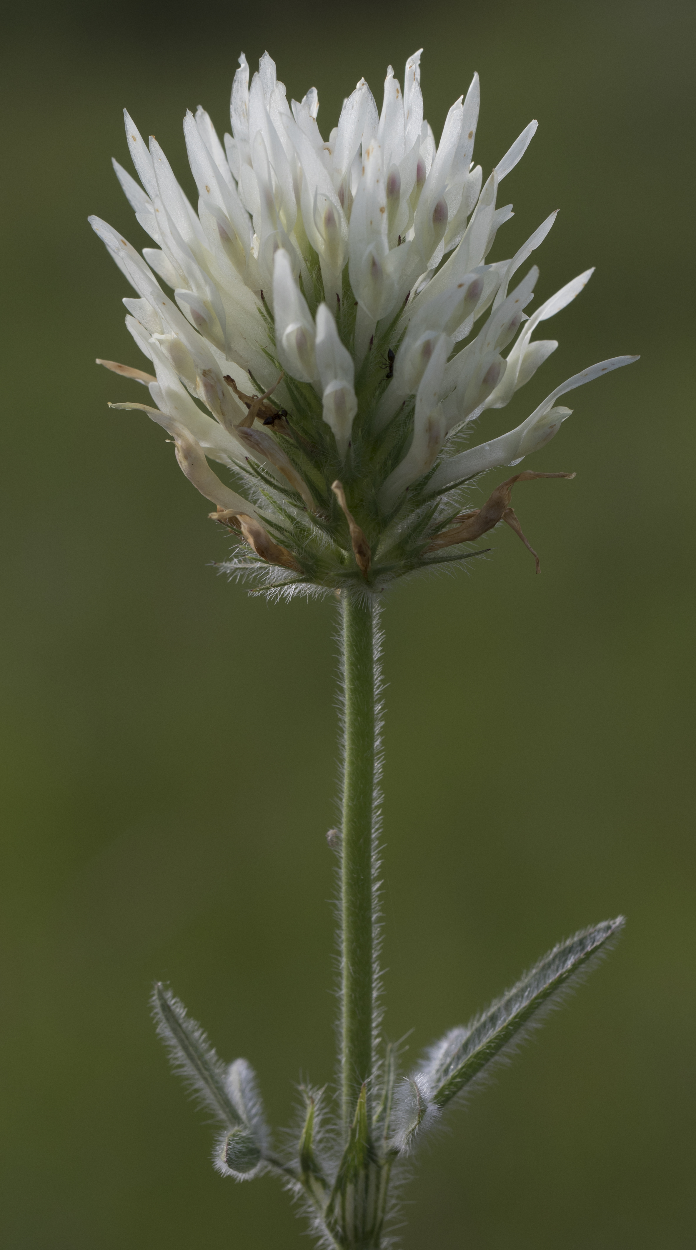 Egyptian clover (Trifolium alexandrinum). Obrukbaşı - Saimbeyli, Adana - Turkey.